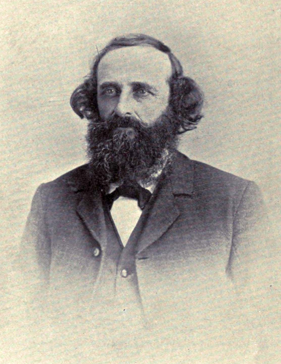 Photograph of Henry Shimer (1828-1895), Illinois entomologist, teacher at the Mount Carroll Seminary, and husband of Frances Shimer.